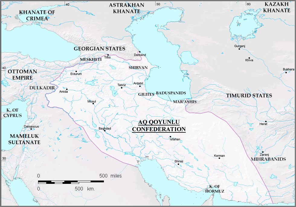 Political map in English of the Aq Qoyunlu Confederation the year of Uzun Hasan's death, 1478